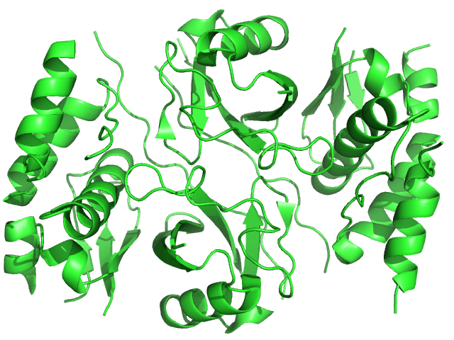 Crystal Structure of the HIV Vif BC-box in Complex with Human ElonginB and ElonginC (PDB: 3DCG​) rendered using PyMol